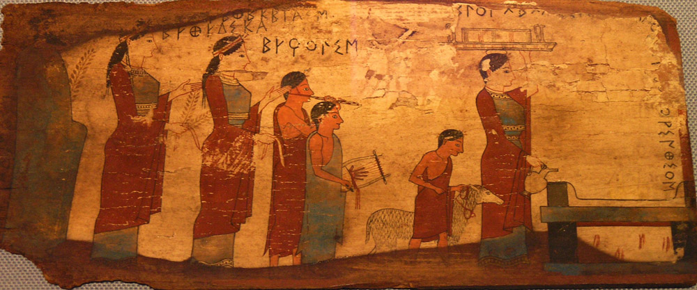 6th c. BC representation of an animal sacrifice scene in Corinth.